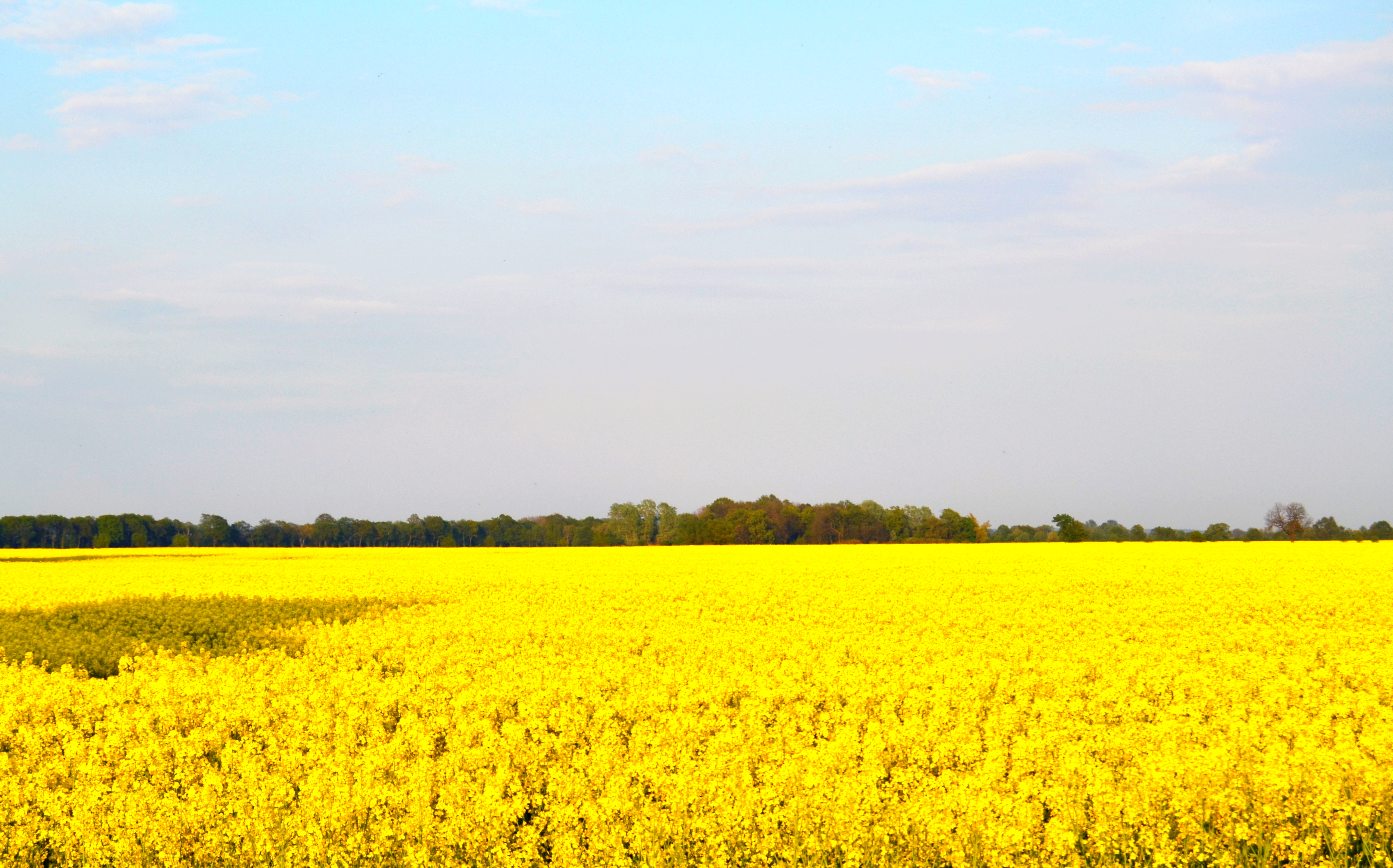 Rapeseed fields near Zechin.